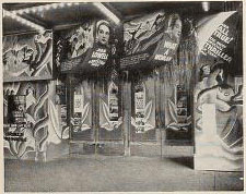 Lobby Display at the Rialto Theater in New York City for the 1934 film, Adventure Girl Other information for an explanation of the copyright for information regarding public domain